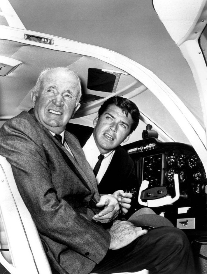 Photo of Walter Brennan as Walter Andrews and Van Williams as Pat Burns from the television program The Tycoon.